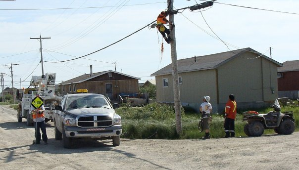 Fibre Optics installed in Attawapiskat since July 2009